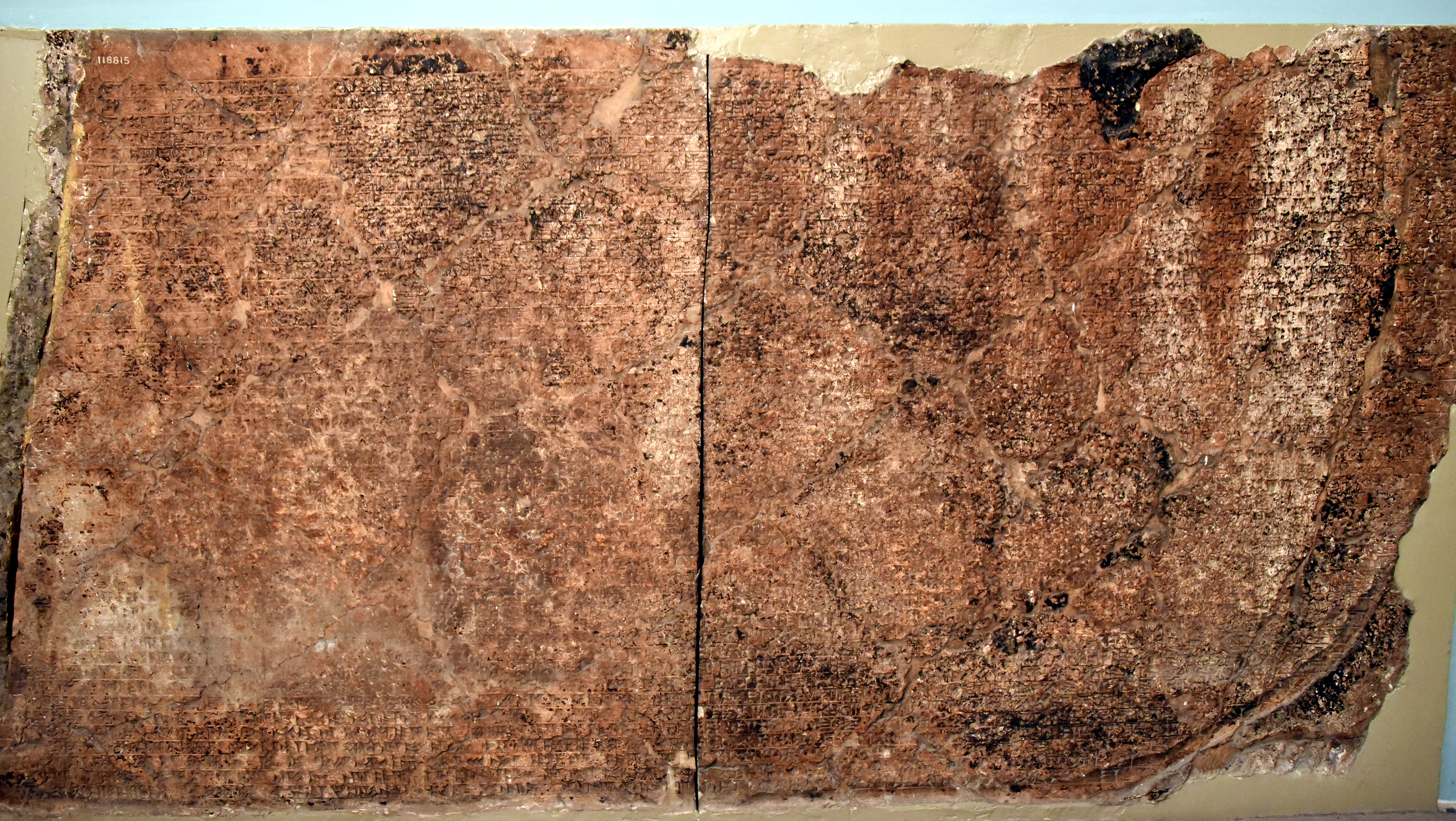 This is the beginning of the inscription which was carved on the pair of human-headed wing bulls which flanked the main entrance to the Throne Room of the Assyrian king Sennacherib (r. 704-681 BCE). It includes the most detailed surviving account of the tribute sent by Hezekiah, king of Judah, after the Assyrian military campaign to Palestine in 701 BCE. About 693/2 BCE. From Nineveh, South-West Palace, Courtyard H, door "a". The British Museum in London.